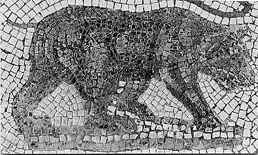 Mosaic of the extinct atlas bear.